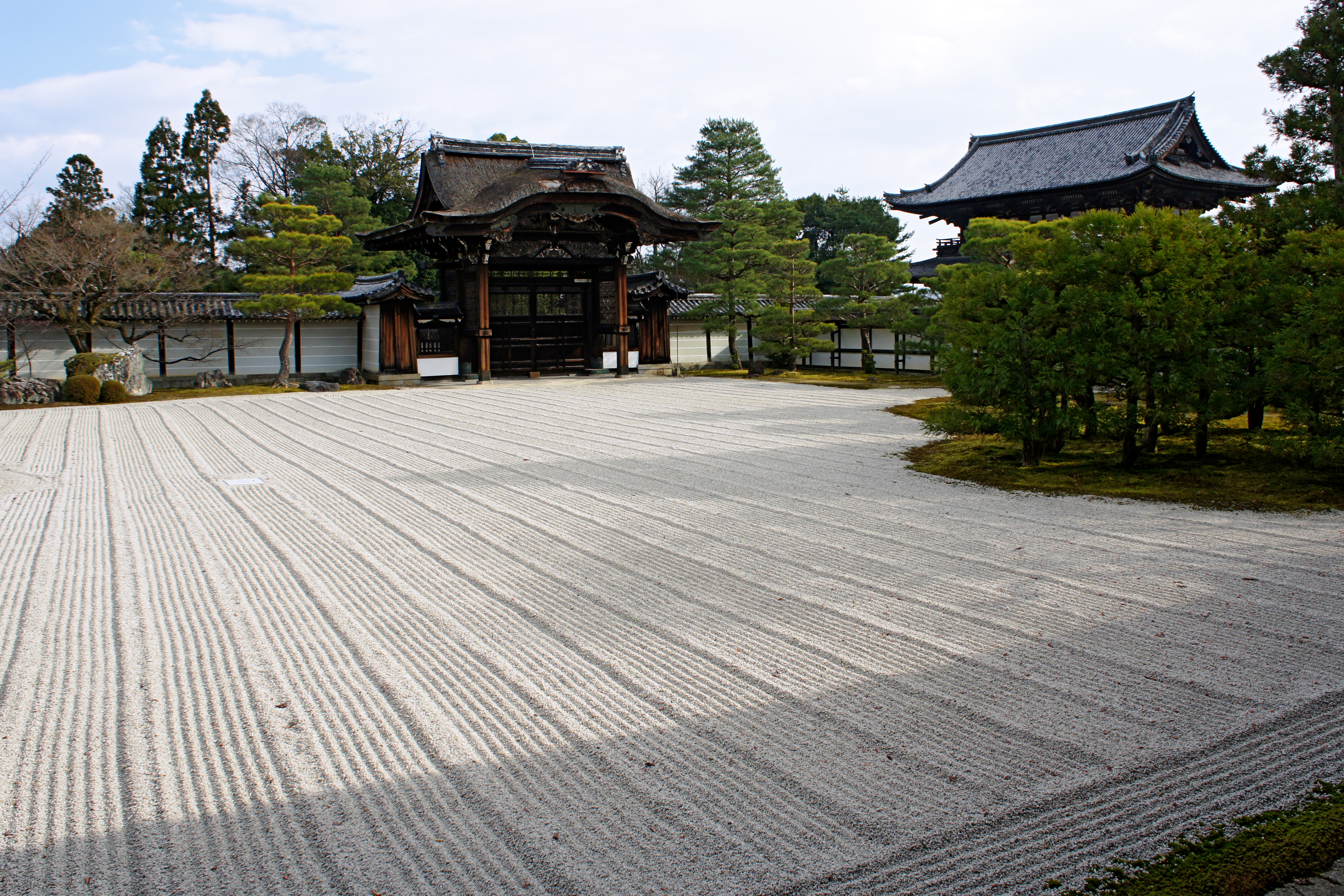 Ninna-ji Shinden Nantei (South Garden) in Ukyō-ku, Kyoto, Kyoto Prefecture, Japan. Ninna-ji was registered as part of the UNESCO World Heritage Site "Historic monuments of ancient Kyoto".